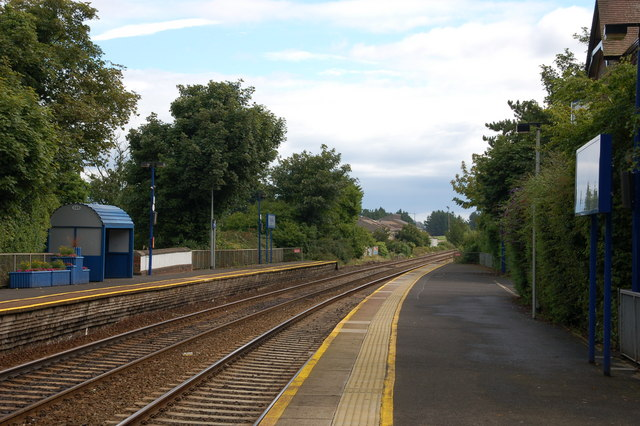 Carnalea station, Northern Ireland Railways. Carnalea station was opened in 1877 when the area was entirely rural. It is now almost entirely bungalows. This is the view towards Bangor with the down platform on the left. The golf course is behind the trees beyond the down platform.